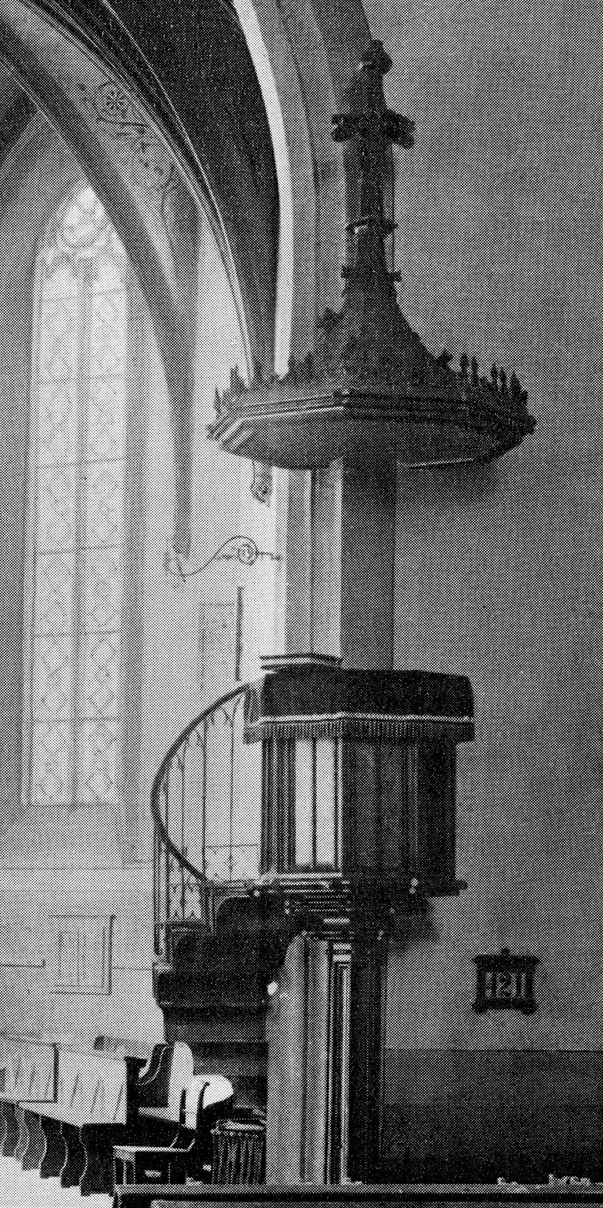 t